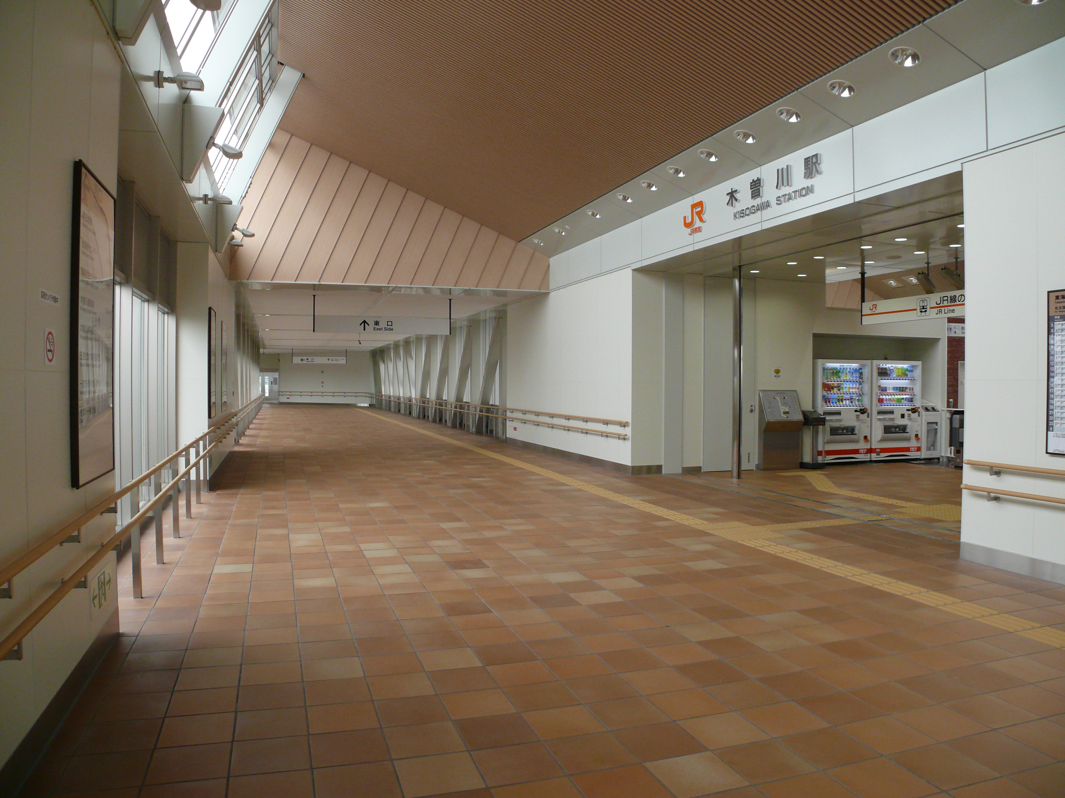 JR Central of Kisogawa Station.